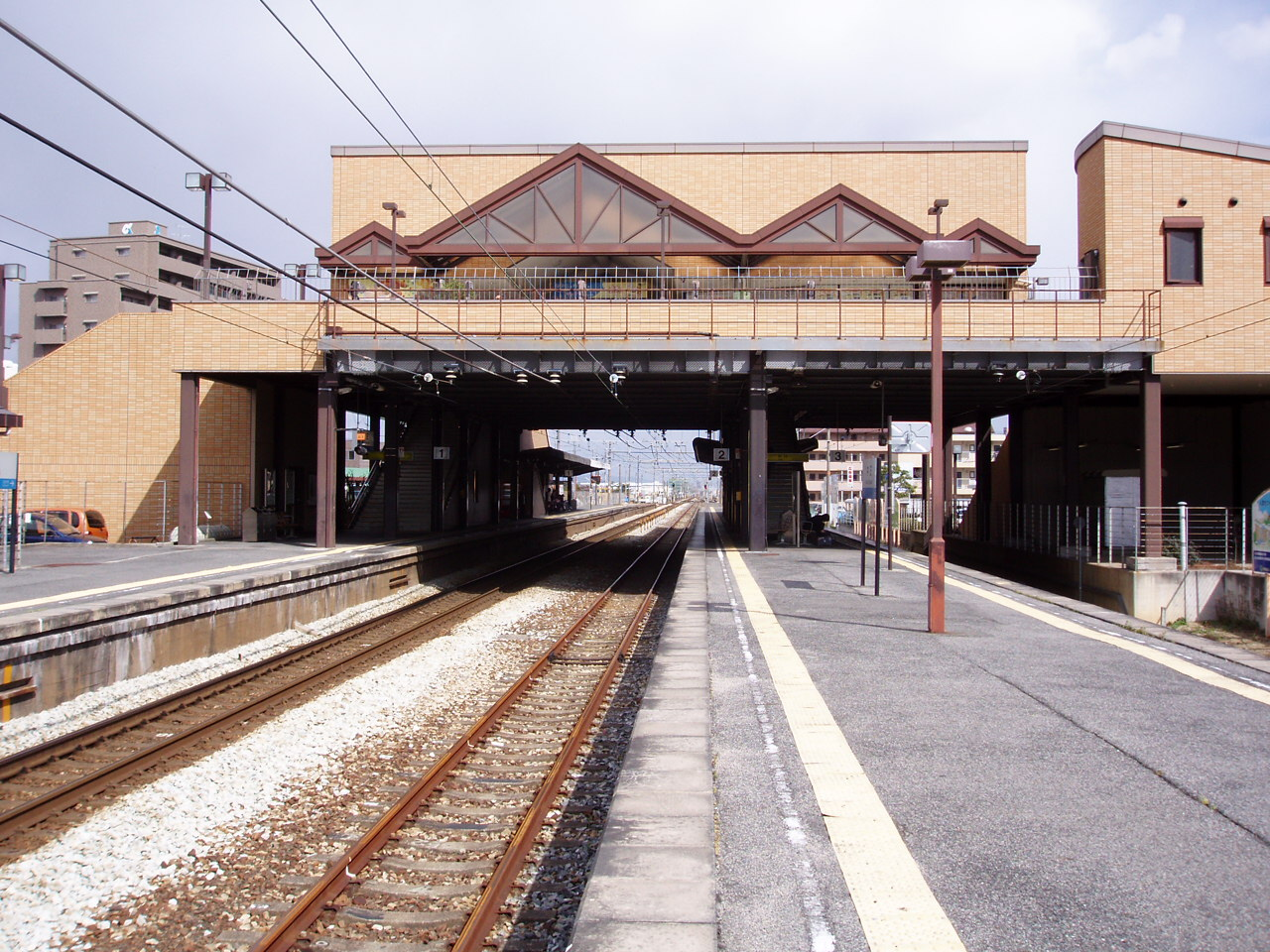 West Japan Railway Sanyo Main Line Nakasho Station Platform 西日本旅客鉄道 山陽本線 中庄駅 駅ホーム